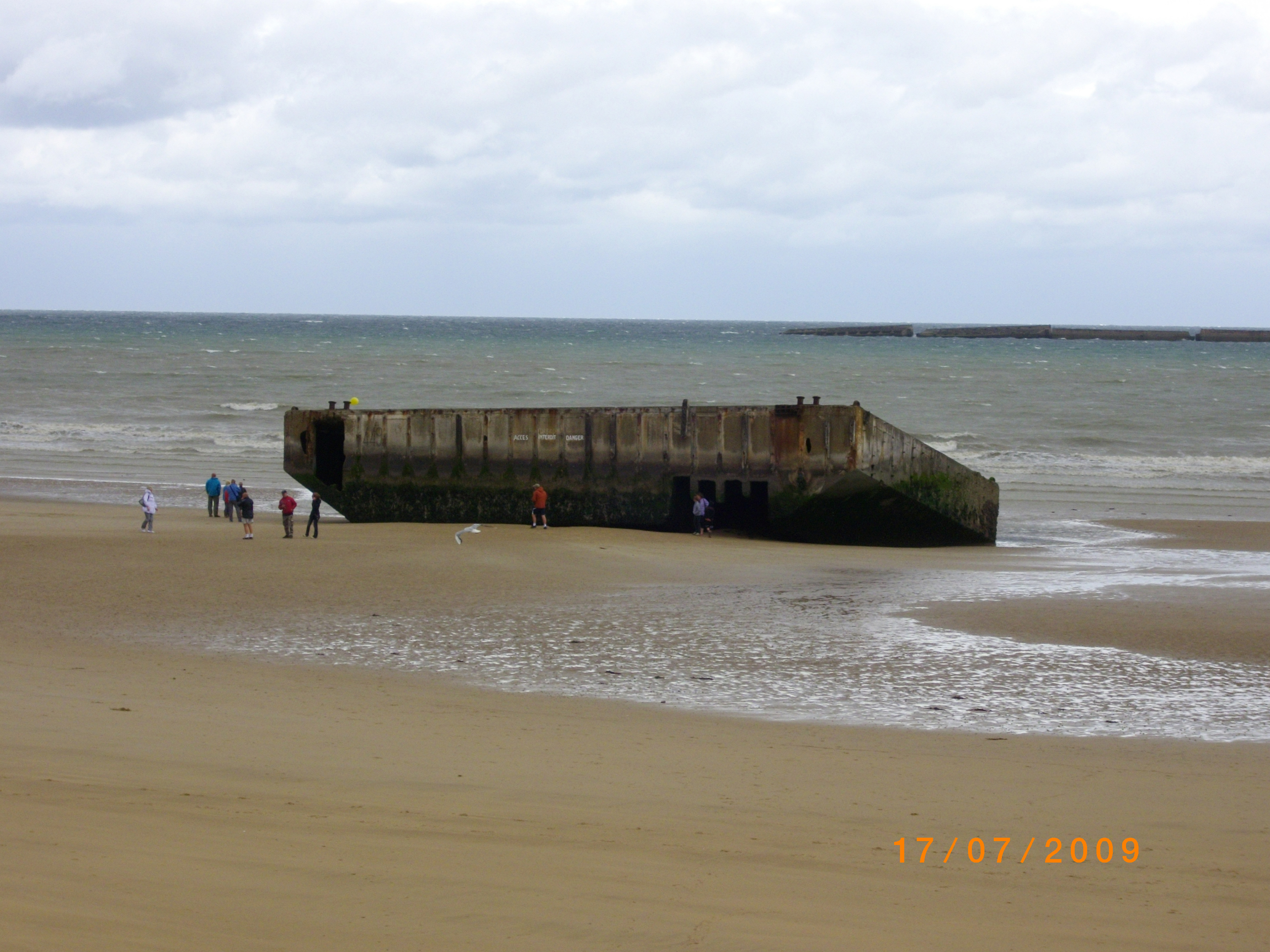 Arronaches, mulberry port